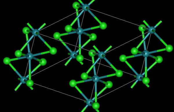 RuCl3 structure. Green atoms are chlorine Journal = JOURNAL OF THE CHEMICAL SOCIETY, SECTION A: INORGANIC, PHYSICAL, THEORETICAL Year = 1967 Volume = Page = 1038-1045 Title = X-Ray, Infrared, and Magnetic Studies of a- and b-Ruthenium Trichloride Authors = Fletcher J.M., Gardner W.E., Fox A.C., Topping G.